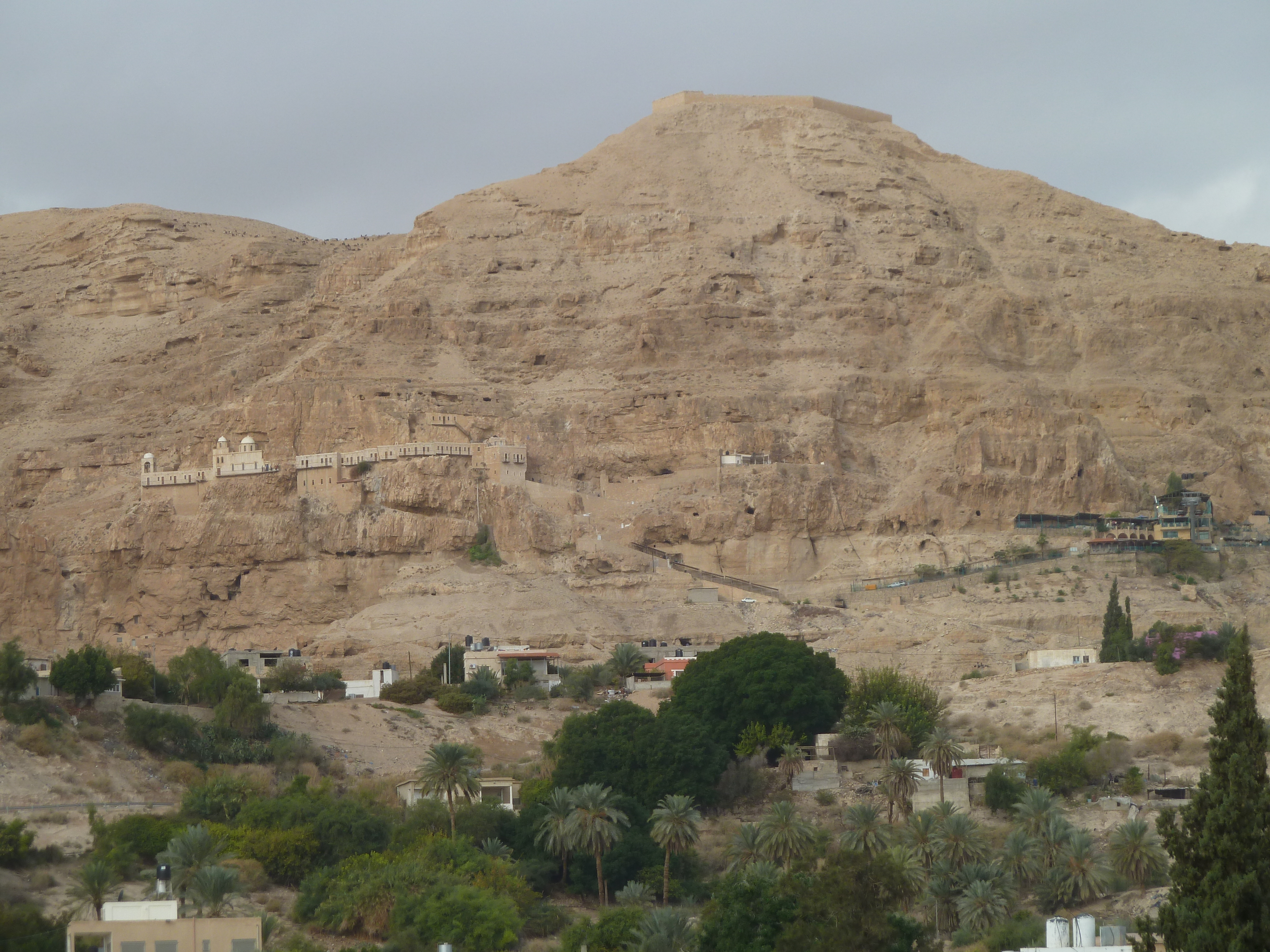 Dir El Qaratal - Monastery of the Temptation's, Cliffs of Doq (Dagon), Jericho